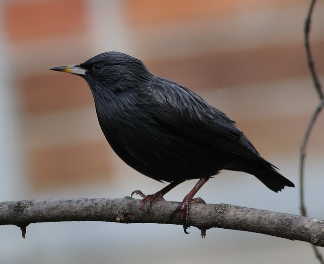 Spotless Starling (Sturnus unicolor) in late autumn at Madrid.